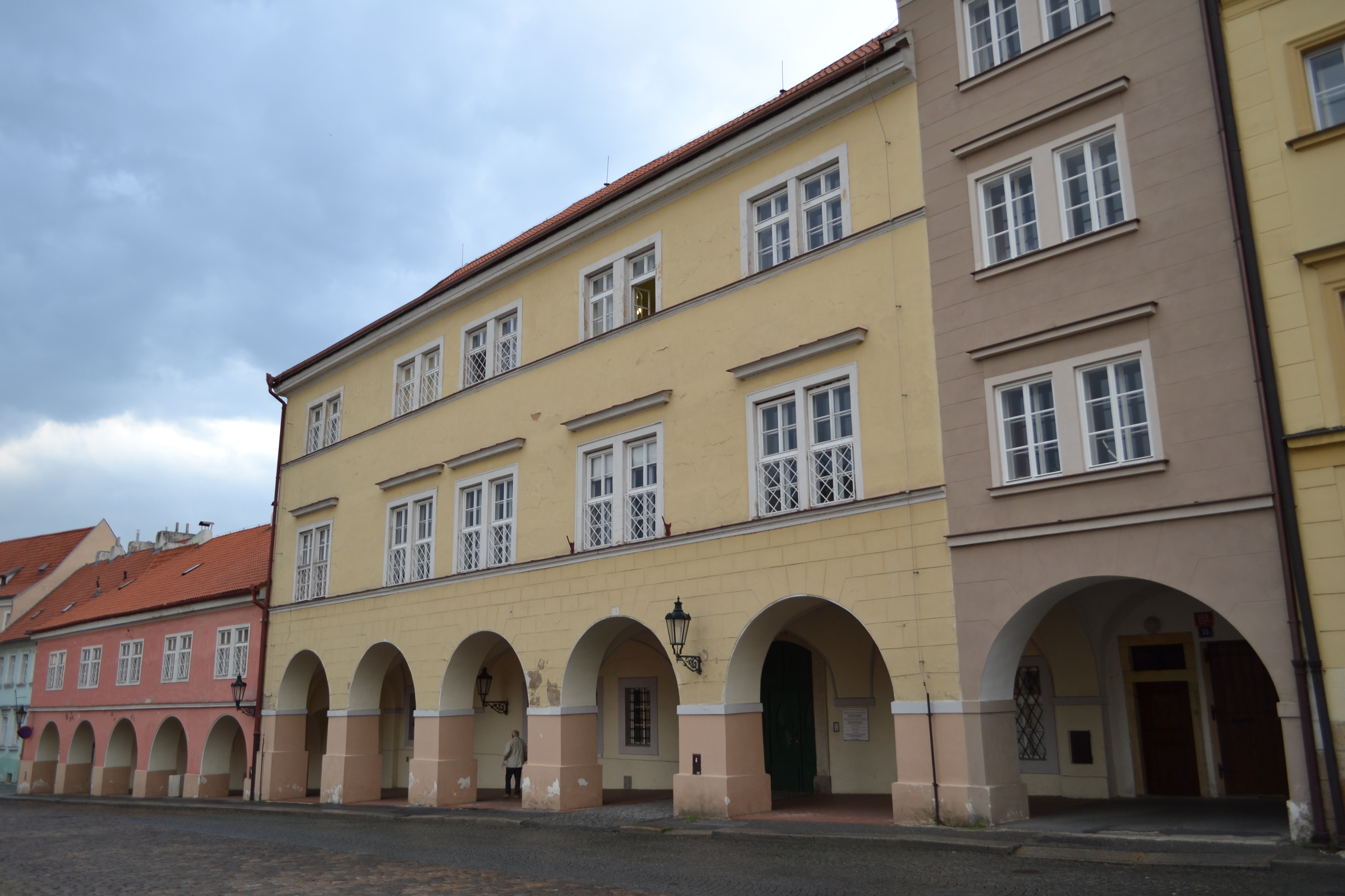 Vrbnovský palace, Loretánská, 19, Prague, Czech Republic